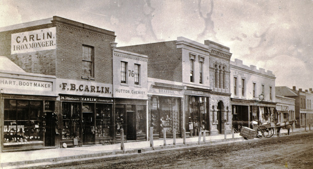 Rundle Street, Adelaide in 1864, looking east. The slightly taller building belongs to H. L. Vosz, glazier